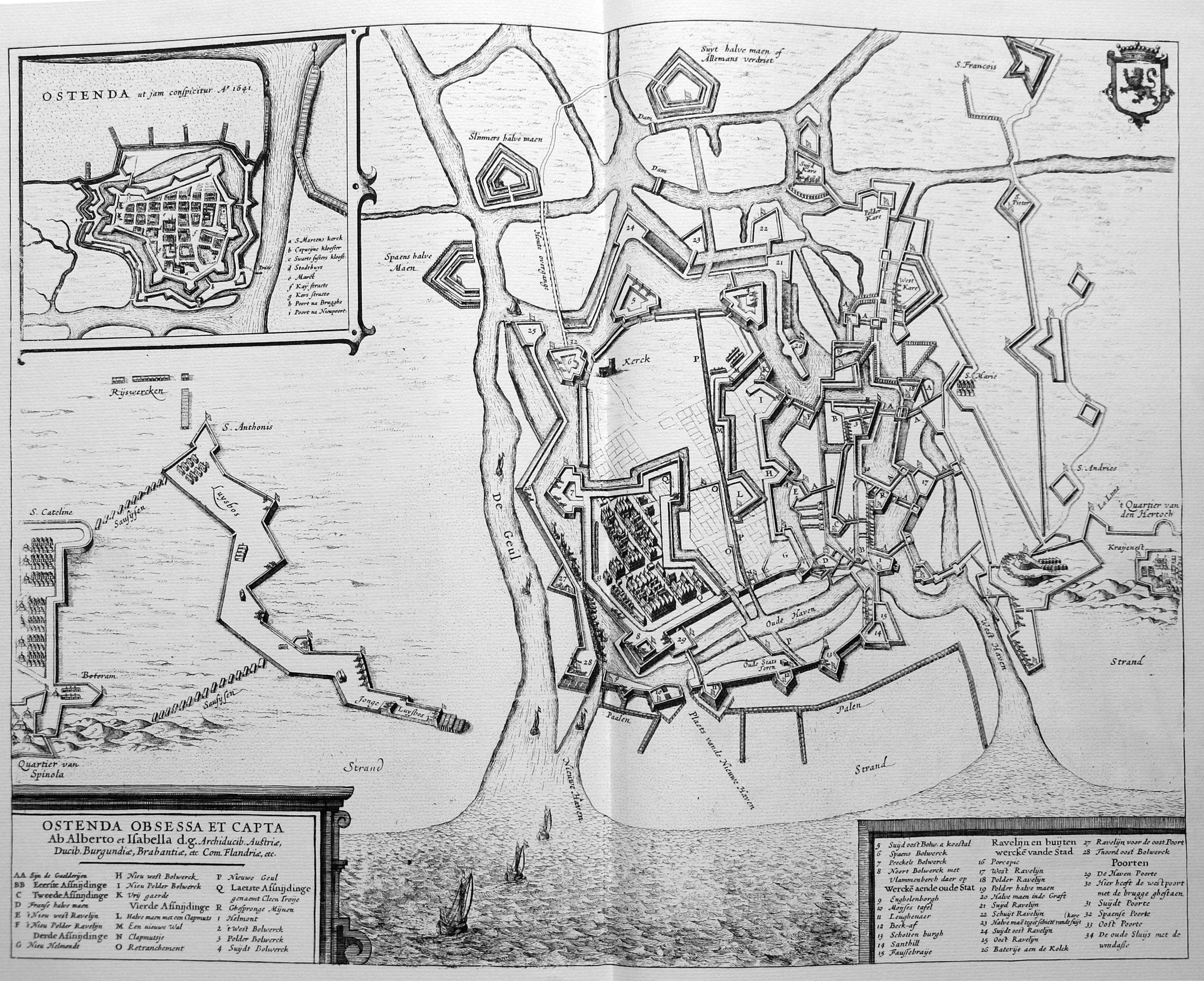 Oostende (Belgium): Page 310-311 of Anton Sander's Flandria Illustrata:Ostend